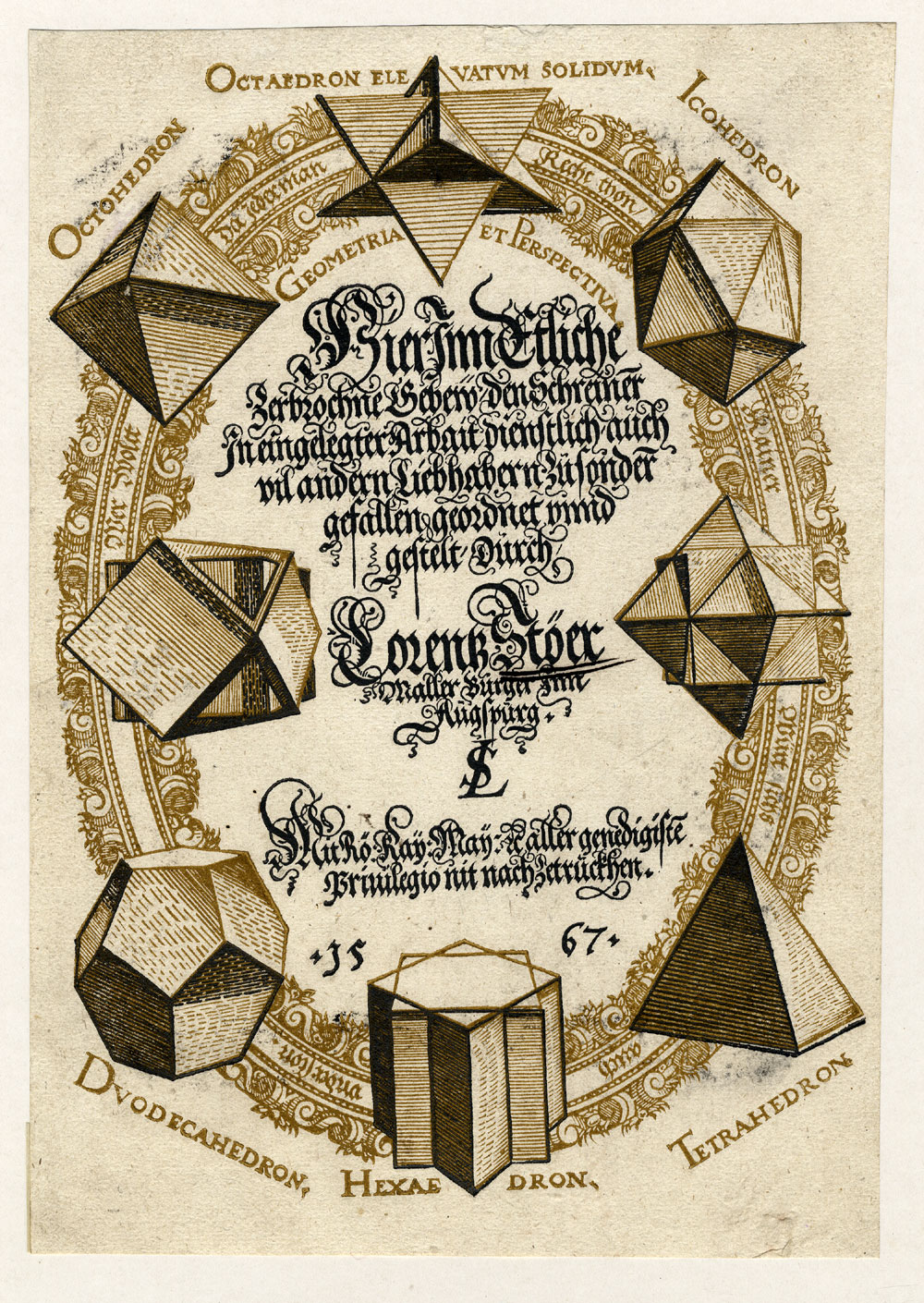 Book of woodcuts by Lorenz Stoer, published 1567, cover